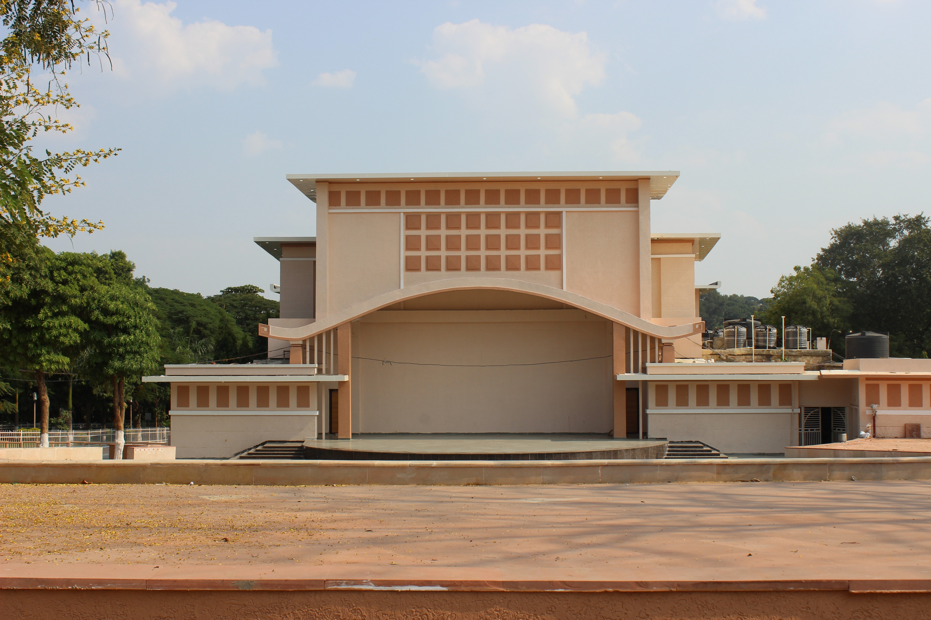 Ravindra Bhavan Bhopal Back portion, open stage